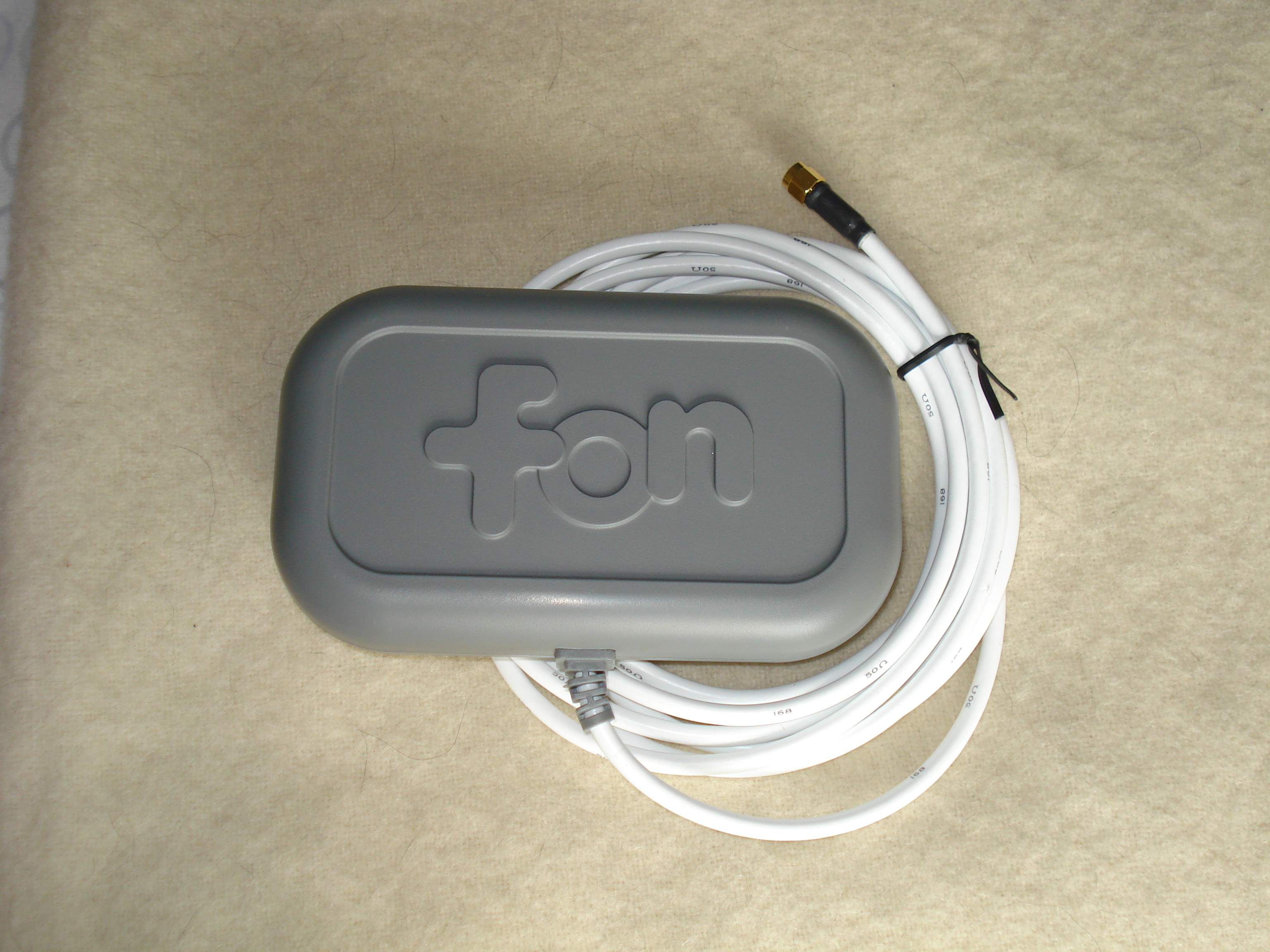 Picture of a La Fontenna